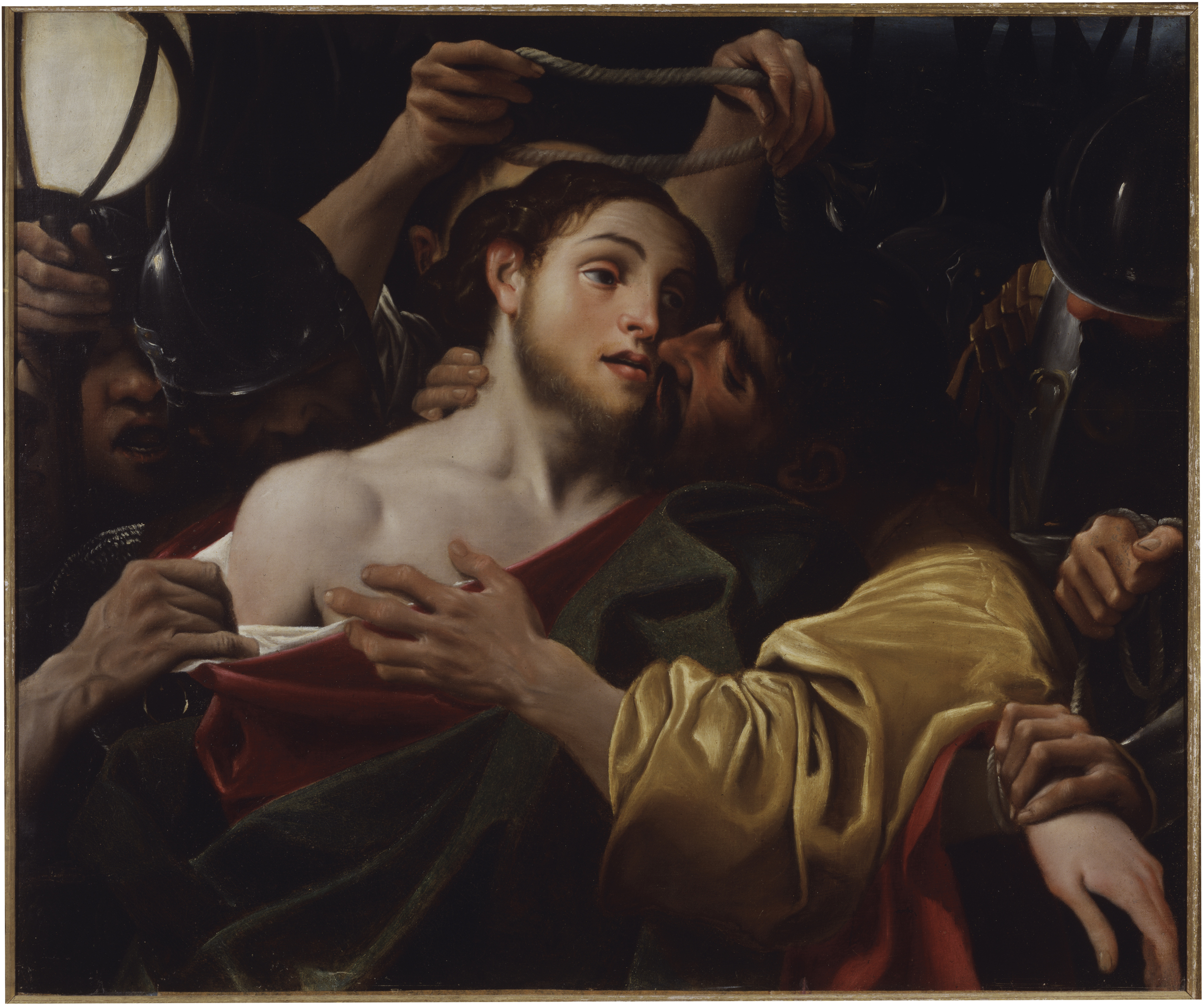 Kiss of Judaslabel QS:Len,"Kiss of Judas" label QS:Lit,"Bacio di Giuda"